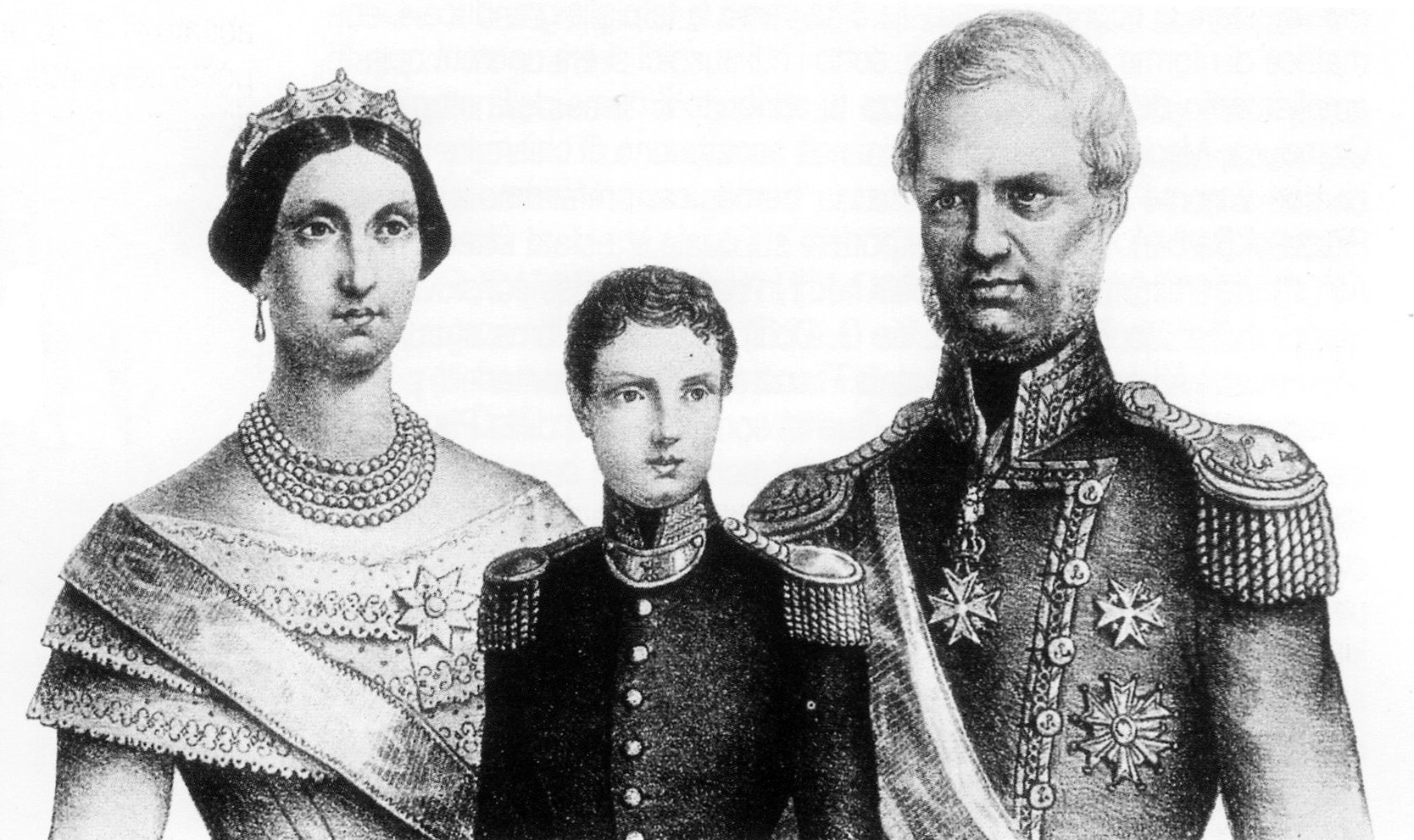 Leopold II of Habsburg-Lothringen, Grand Duke of Tuscany, his wife Maria Antonietta of Two Sicilies and their son Ferdinand, Grand Prince of Tuscany.